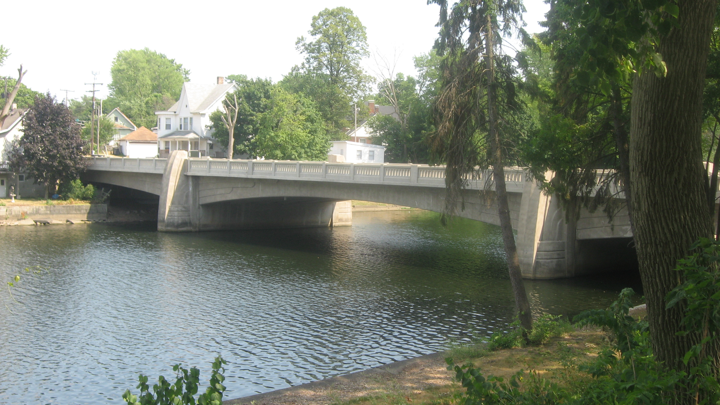 Northern (upstream) side of the Bridge Street Bridge, which carries Bridge Street over the St. Joseph River in Elkhart, Indiana, United States. Built in 1939, it is listed on the National Register of Historic Places.